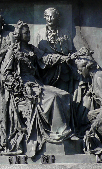 Alexander Bezborodko on the Monument «Millennium of Russia» in Veliky Novgorod